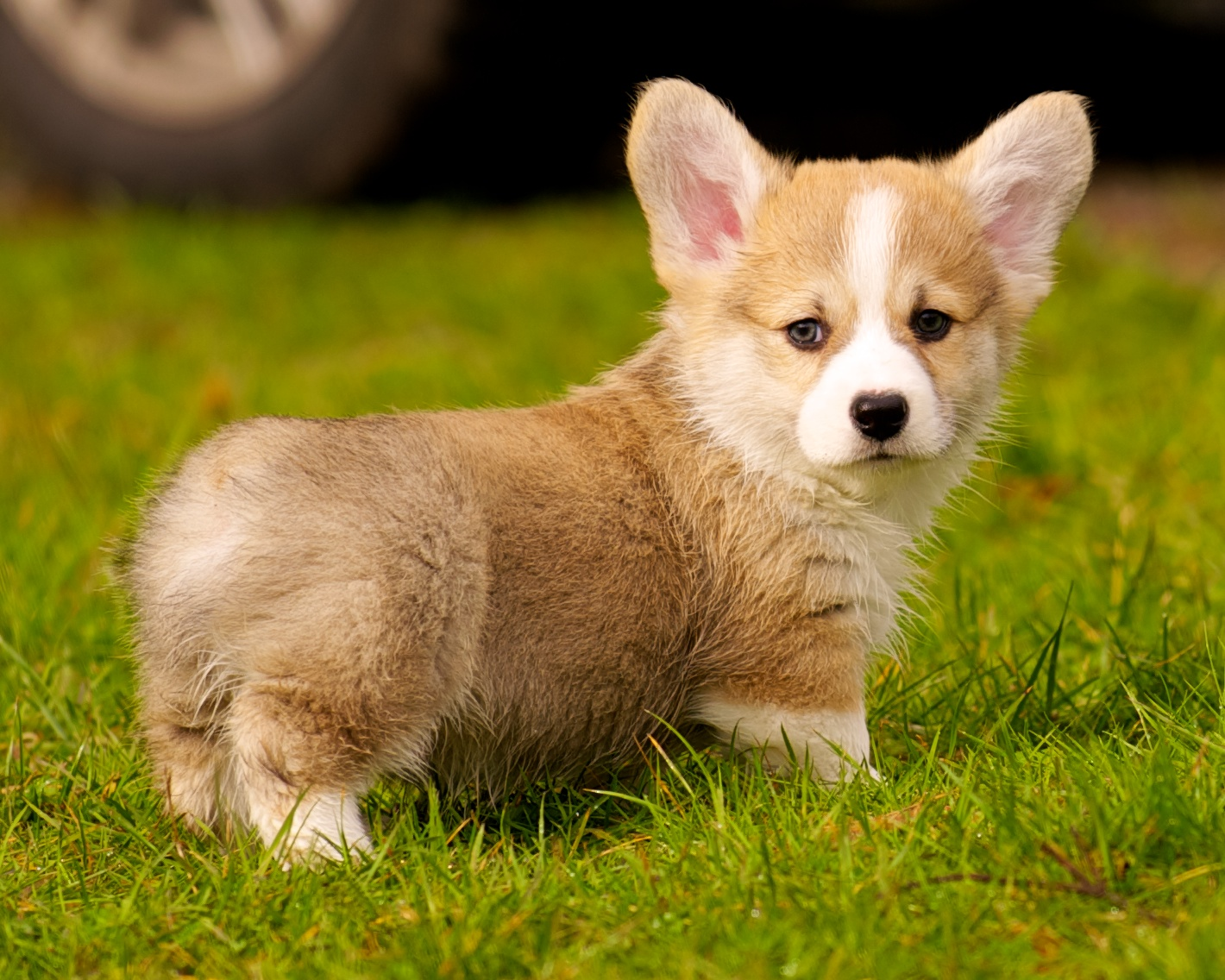 A picture of a puppy Pembroke Welsh Corgi taken by Daniel Stockman.